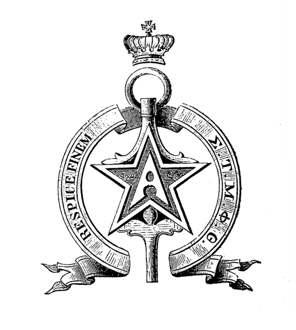 The Seal of Adelphi, 1872